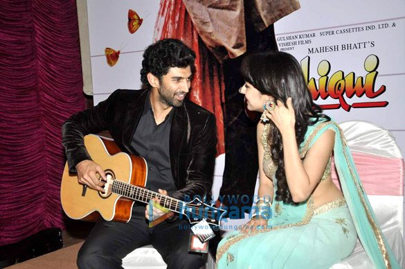 Shraddha Kapoor at audio release of Aashiqui 2 at Sudeep studios